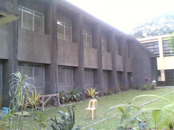 Bukidnon State University-The College Of Nursing Building, Bukidnon State University, Malaybalay City